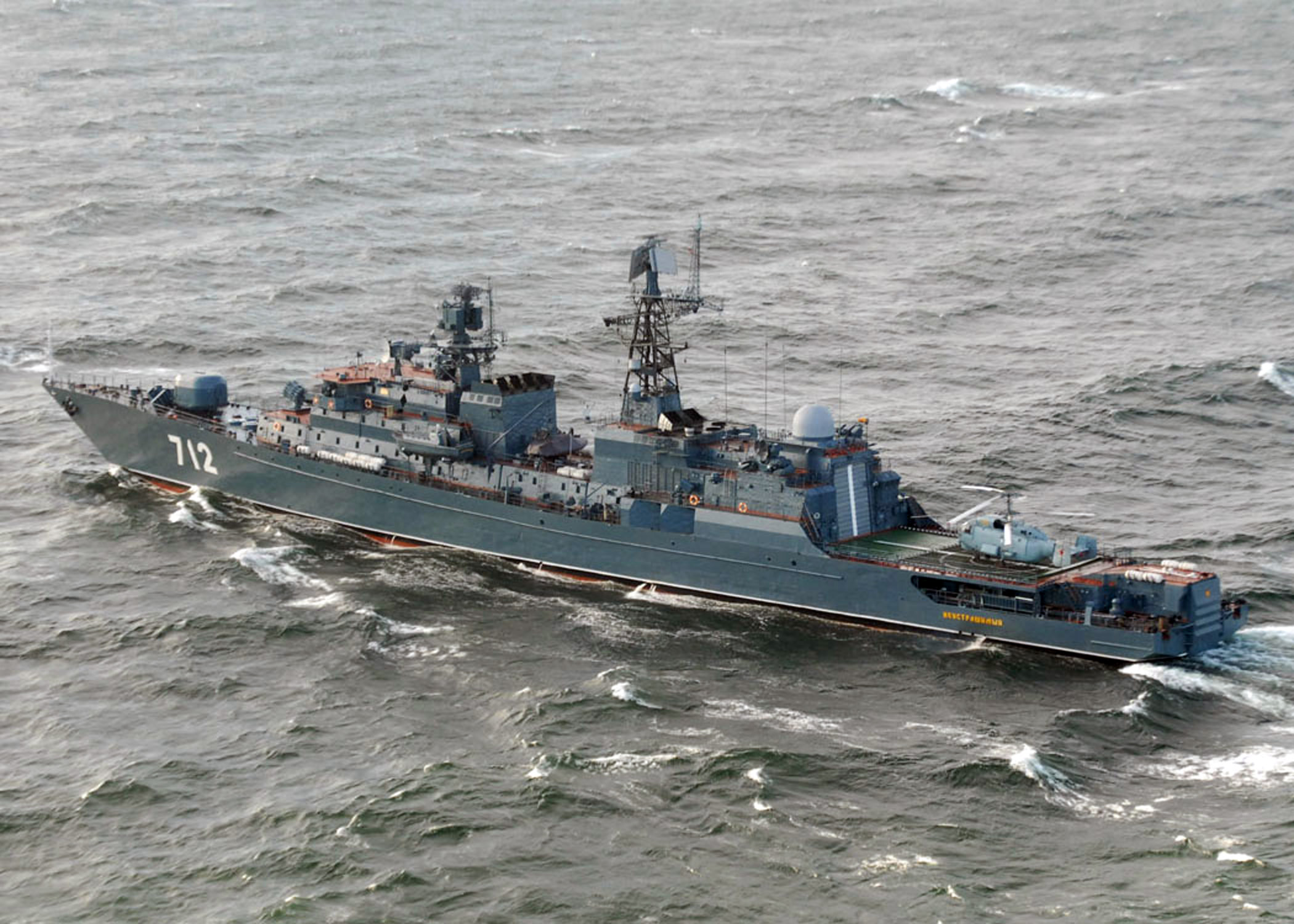 The Russian frigate RFS Neustrashimyy (FF 712) steams through the Baltic Sea during exercises supporting Baltic Operations (BALTOPS).